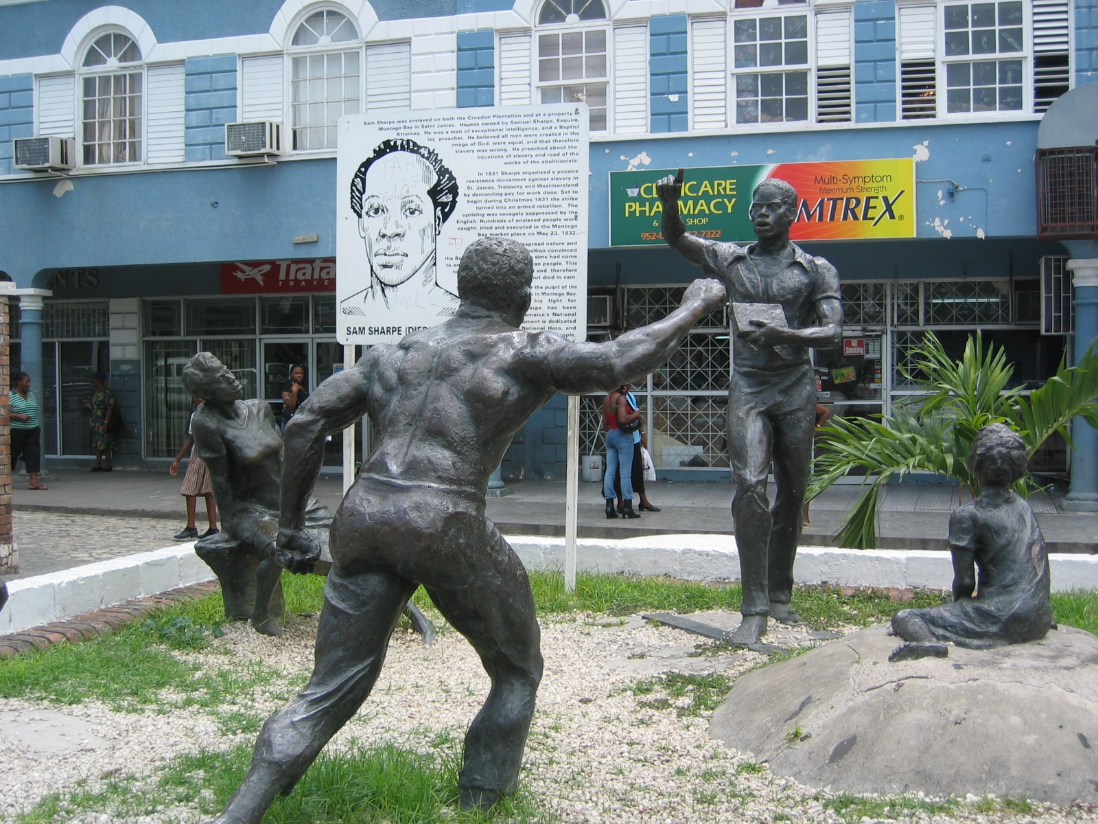 Statue of Samuel Sharpe in Montego Bay, Jamaica